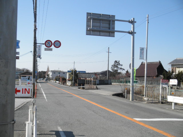 Nodera Inamitown Hyogopref Hyogoprefectural 65 Kobe Kakogawa Himeji line